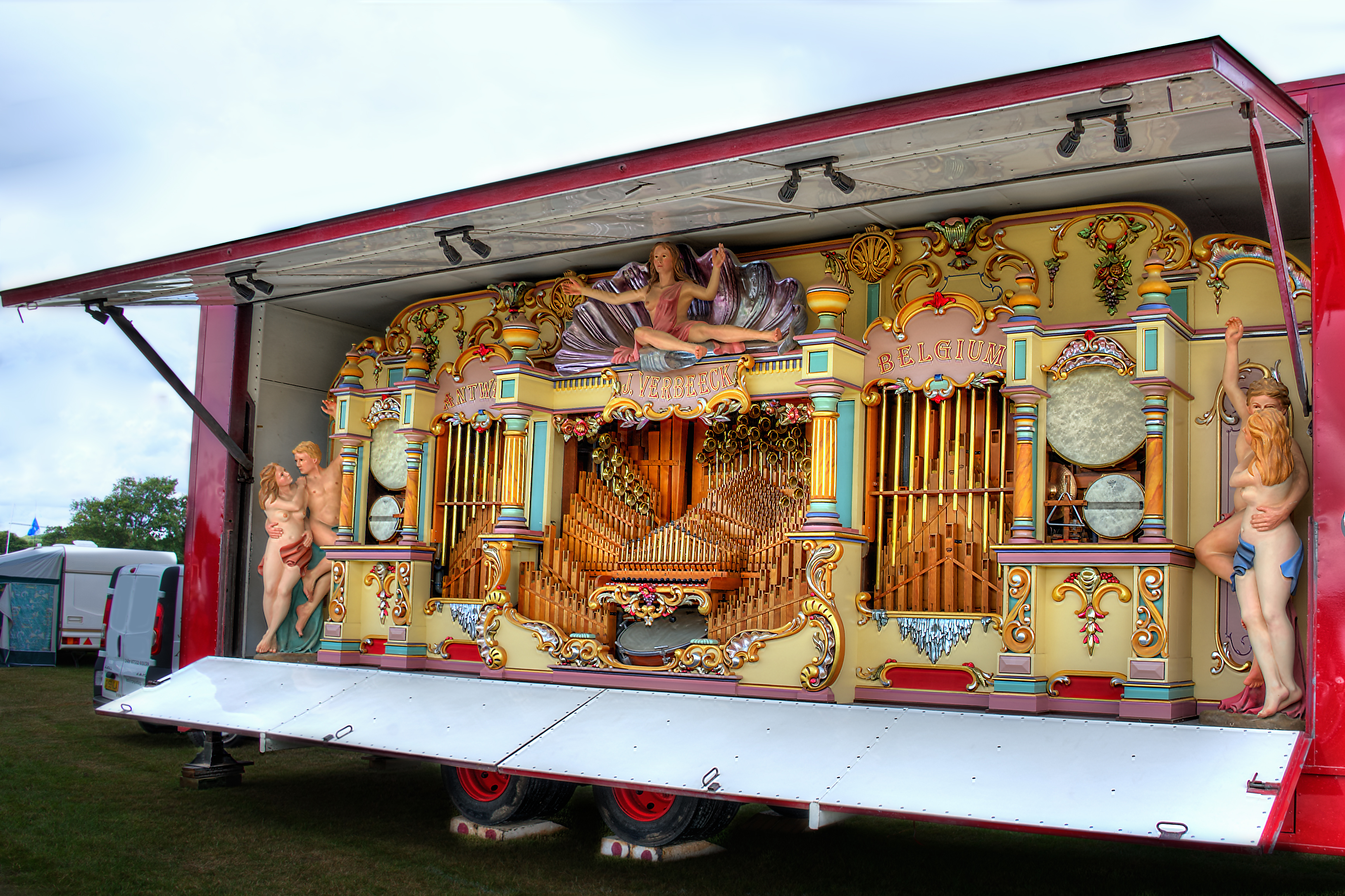 fairground organ